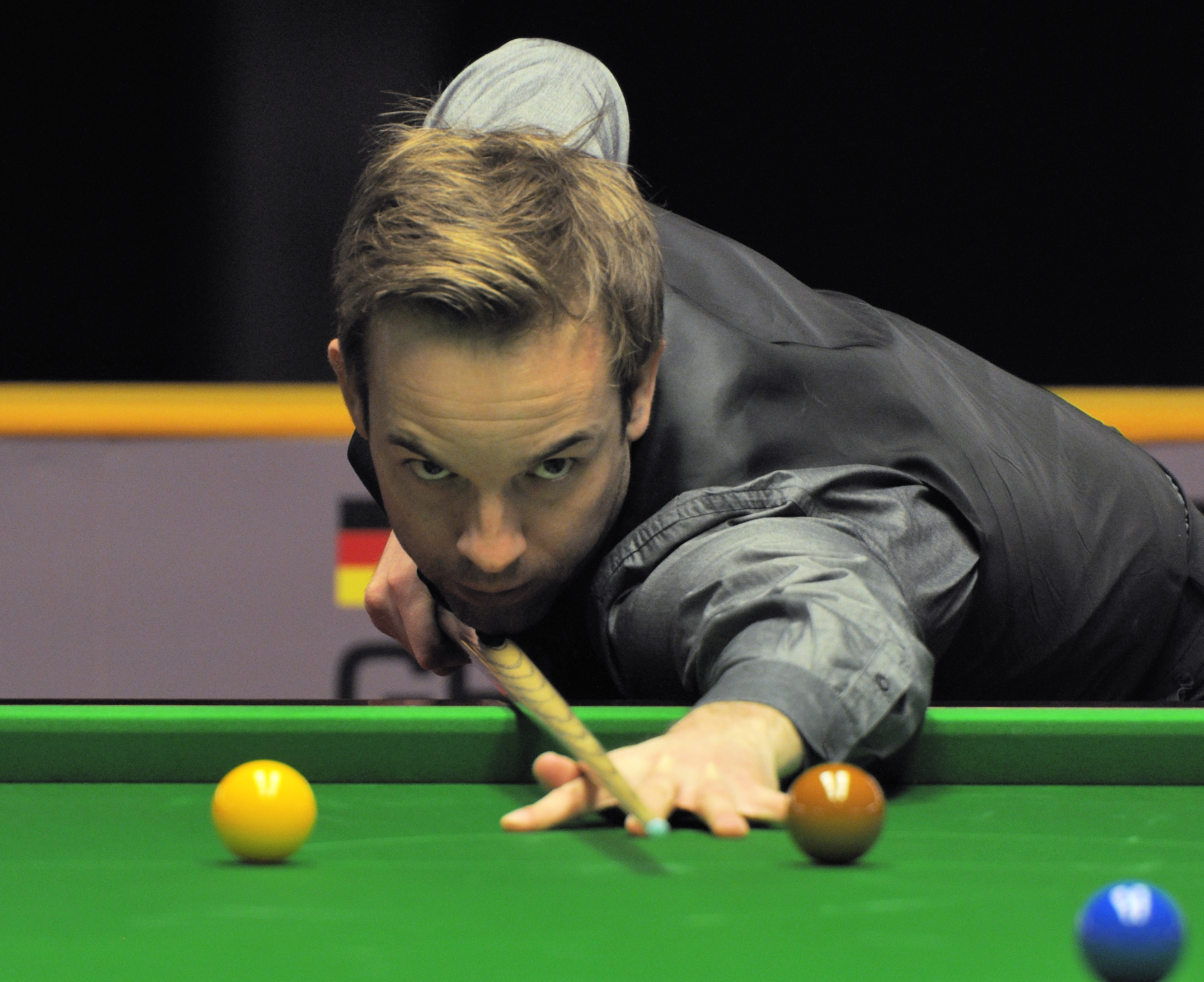 Picture taken in Berlin during the Snooker German Masters in 2014. Allister Carter.